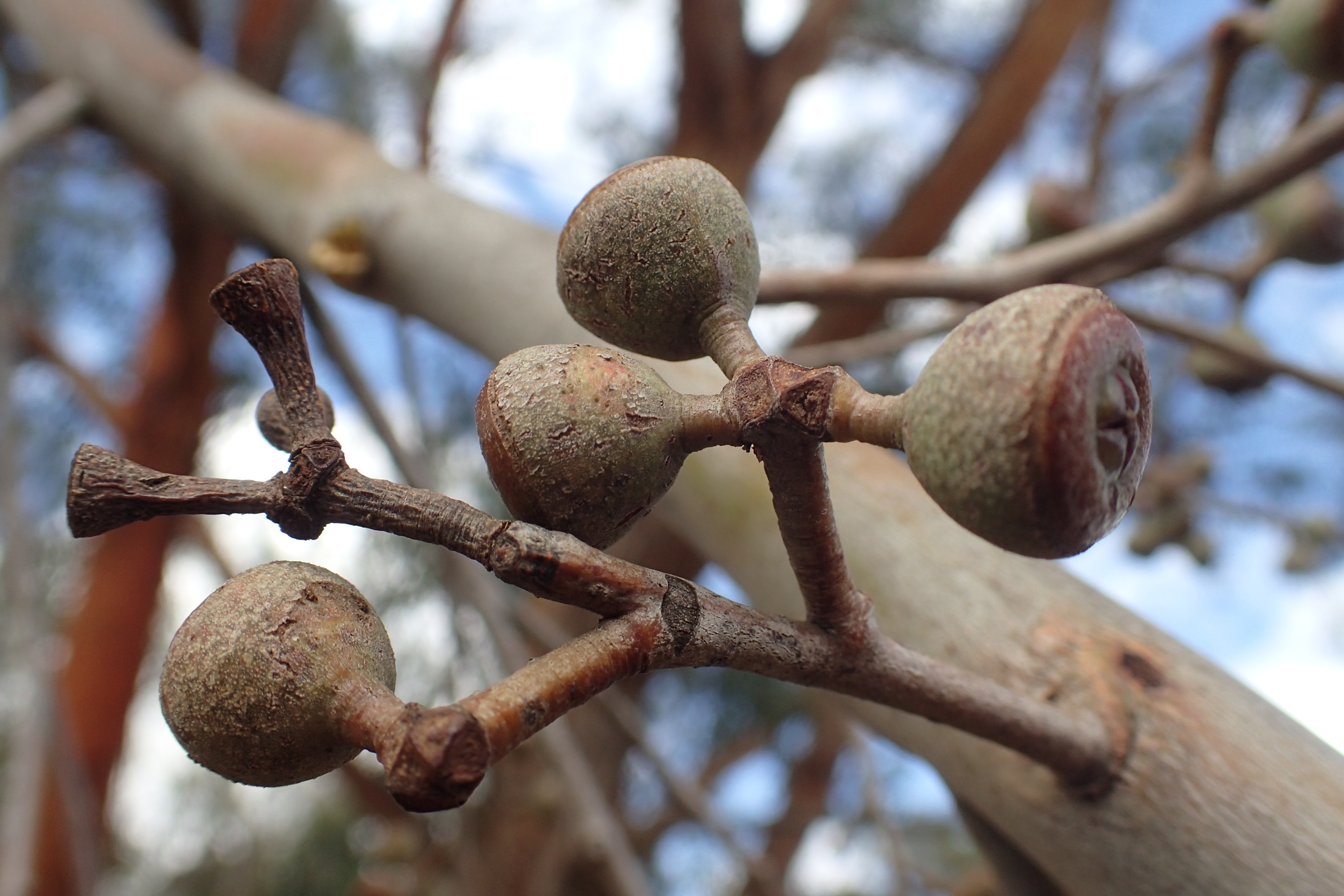 Fruit of Eucalyptus youmanii along Sawpit Gully Road, near Uralla